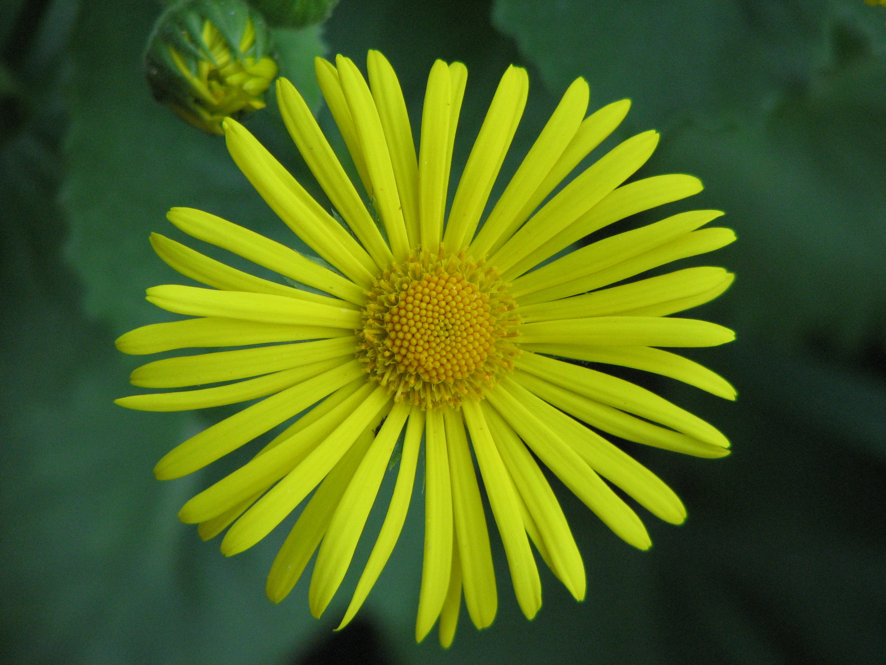 Doronicum austriacum